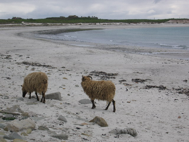 South Bay beach on North Ronaldsay. Sheep on the South Bay beach near Nouster at the southern end of North Ronaldsay, the most Northerly Orkney Island. The Sheep famously spend most of the year grazing only on the beach and seaweed, kept there by a 13 mile drystone dyke, maintained by the community, that circles the entire island.